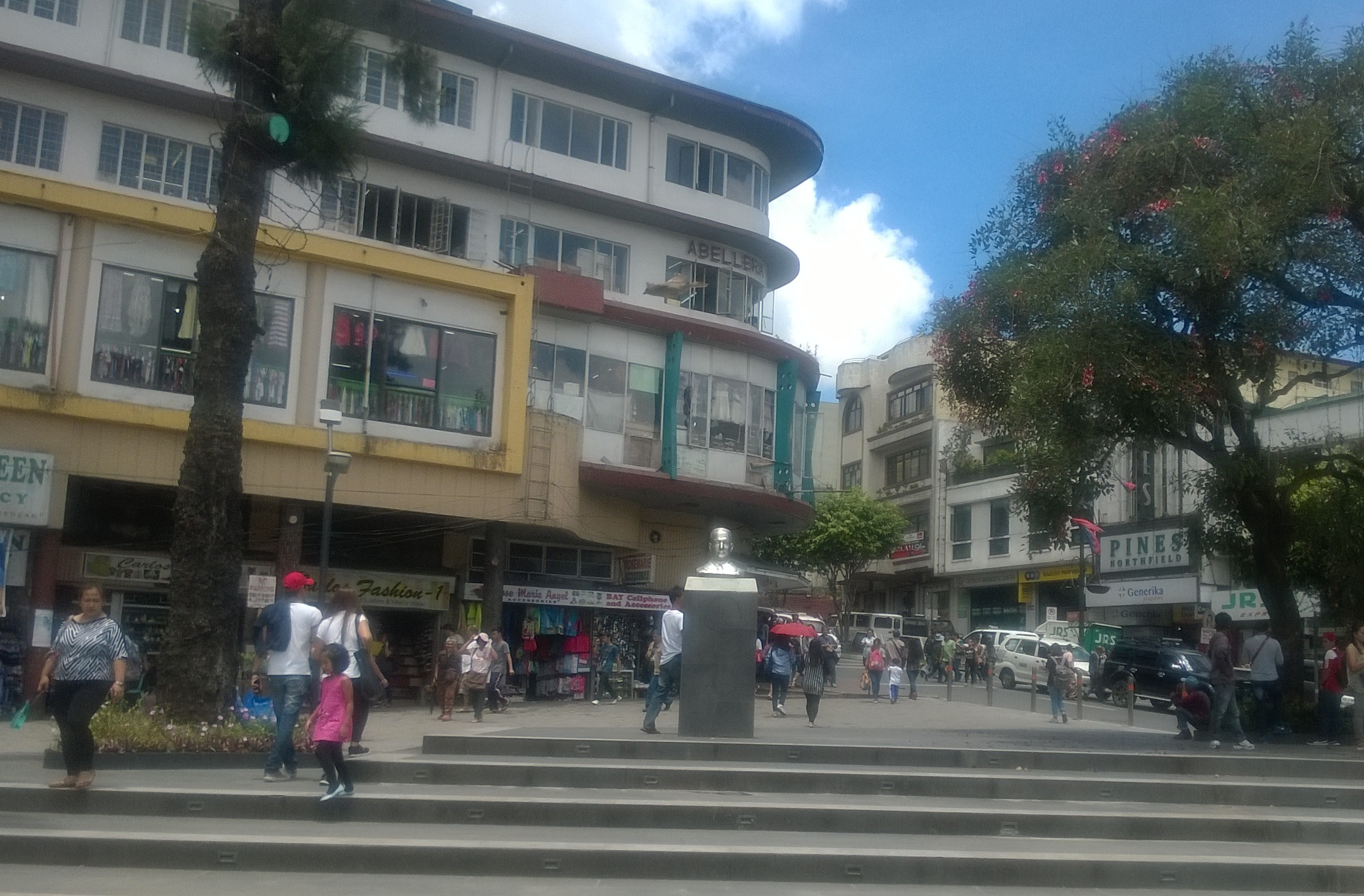 Central Plaza or Malcolm Square in Baguio City, Philippines